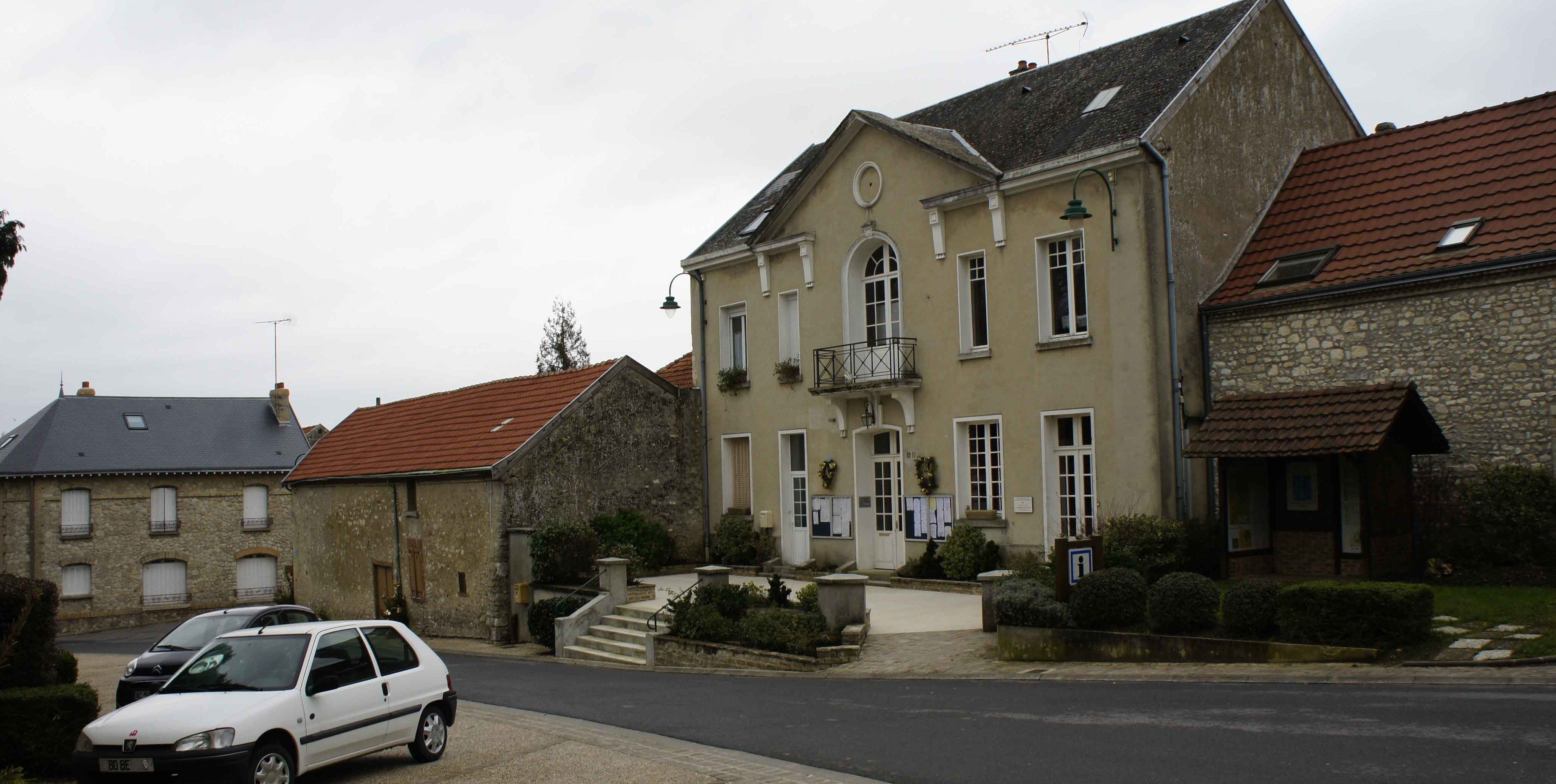 Mairie de Coulommes-la-Montagne.